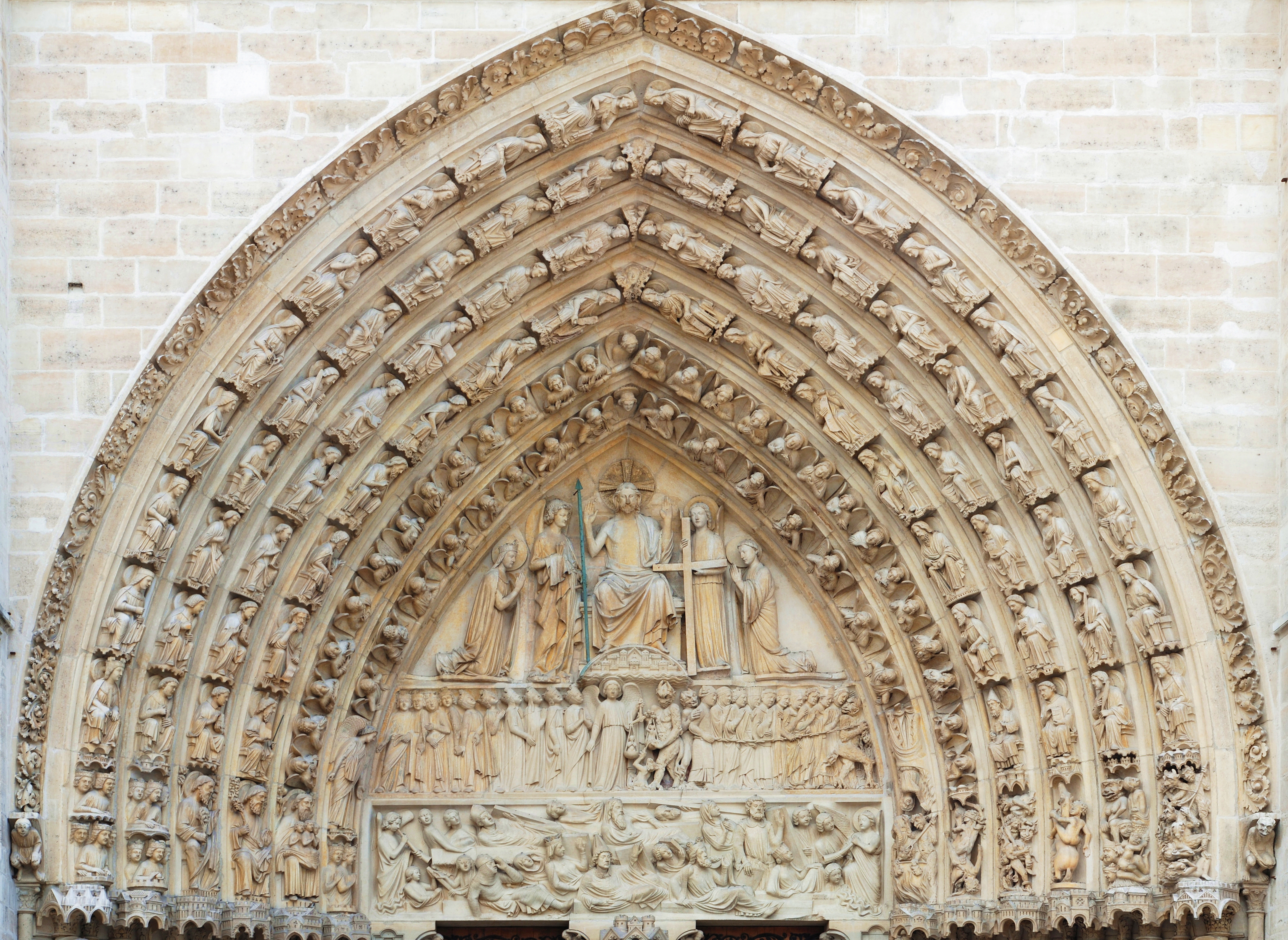 The main portal of Notre-Dame de Paris